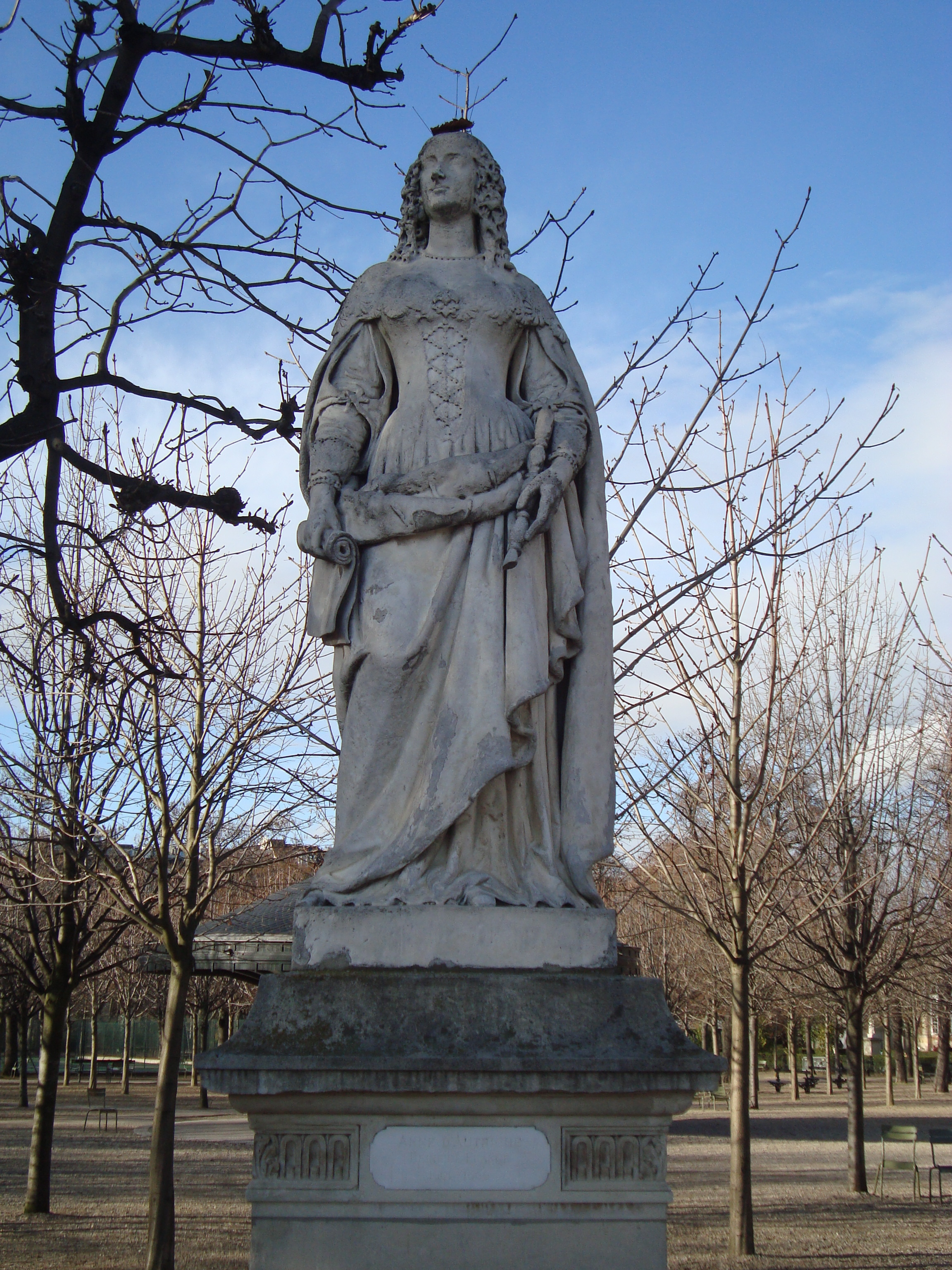 Statue of Anne of Austria in the Jardin du Luxembourg, Paris